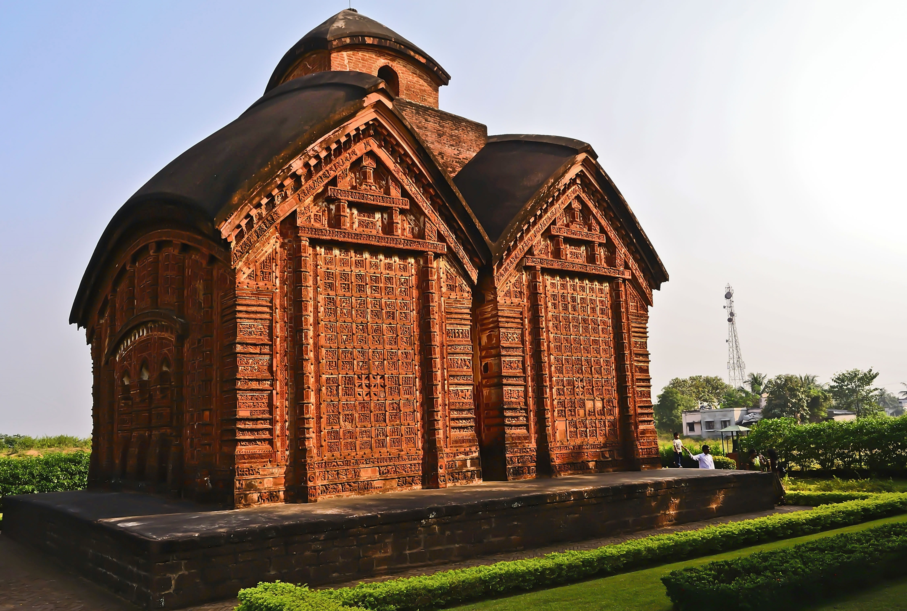 Jore Bangla Temple